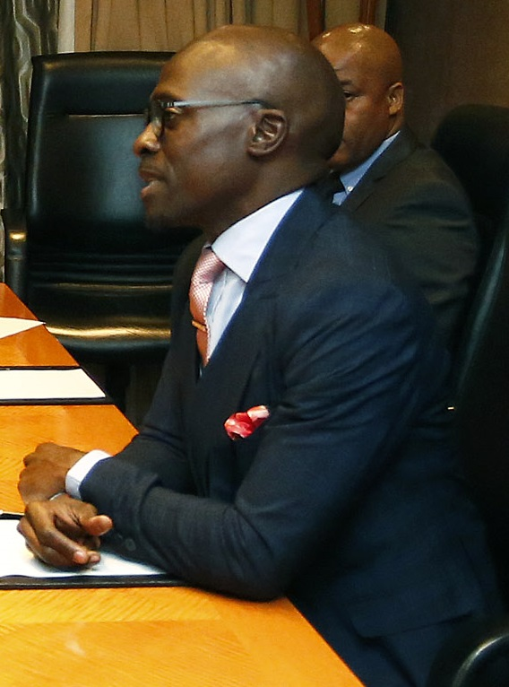 Arbeitsbesuch Südafrika. Bundesminister Seabstian Kurz trifft den südafrikanischen Innenminister, Malusi Gigaba. Johannesburg, 25.10.2016, Foto: Dragan Tatic